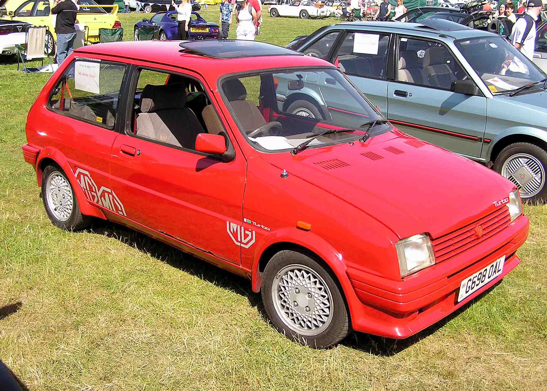 1989 MG Metro Turbo at Bristol Car Show, The Downs, Bristol, England. Taken by Adrian Pingstone in June 2004 and released to the public domain.